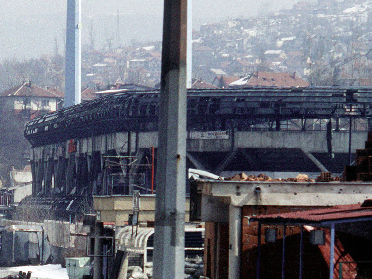 Stadion Grbavica in Sarajevo. Location: GRBAVICA, SARAJEVO BOSNIA AND/I HERZEGOVINA (BIH) Camera Operator: LT. STACEY WYZKOWSKI Date Shot: 19 Mar 1996